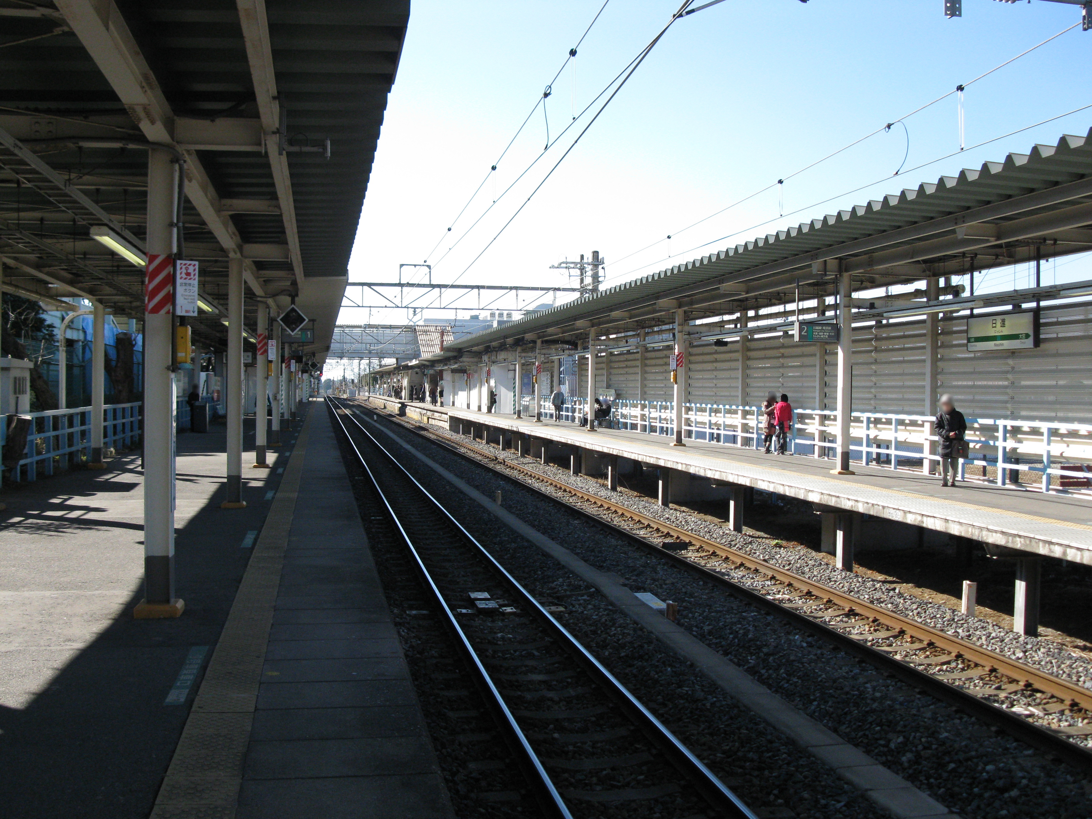 View of the platforms looking west at Nisshin Station on the Kawagoe Line in Saitama, Saitama